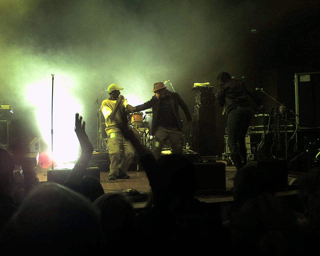 Emmanuel Jal (in yellow clothes) in concert, Bristol